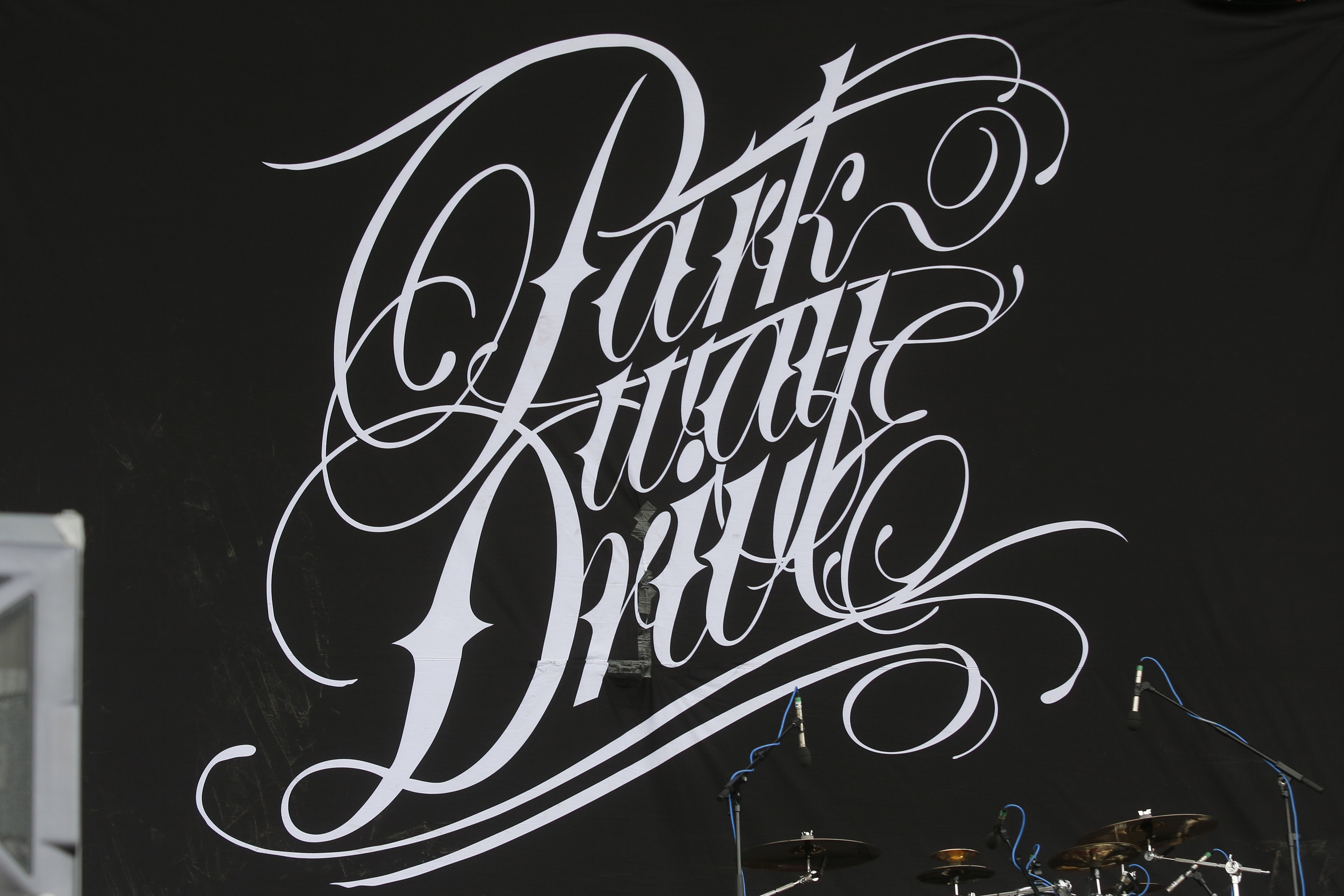 Parkway Drive at Nova Rock-Festival 2013.